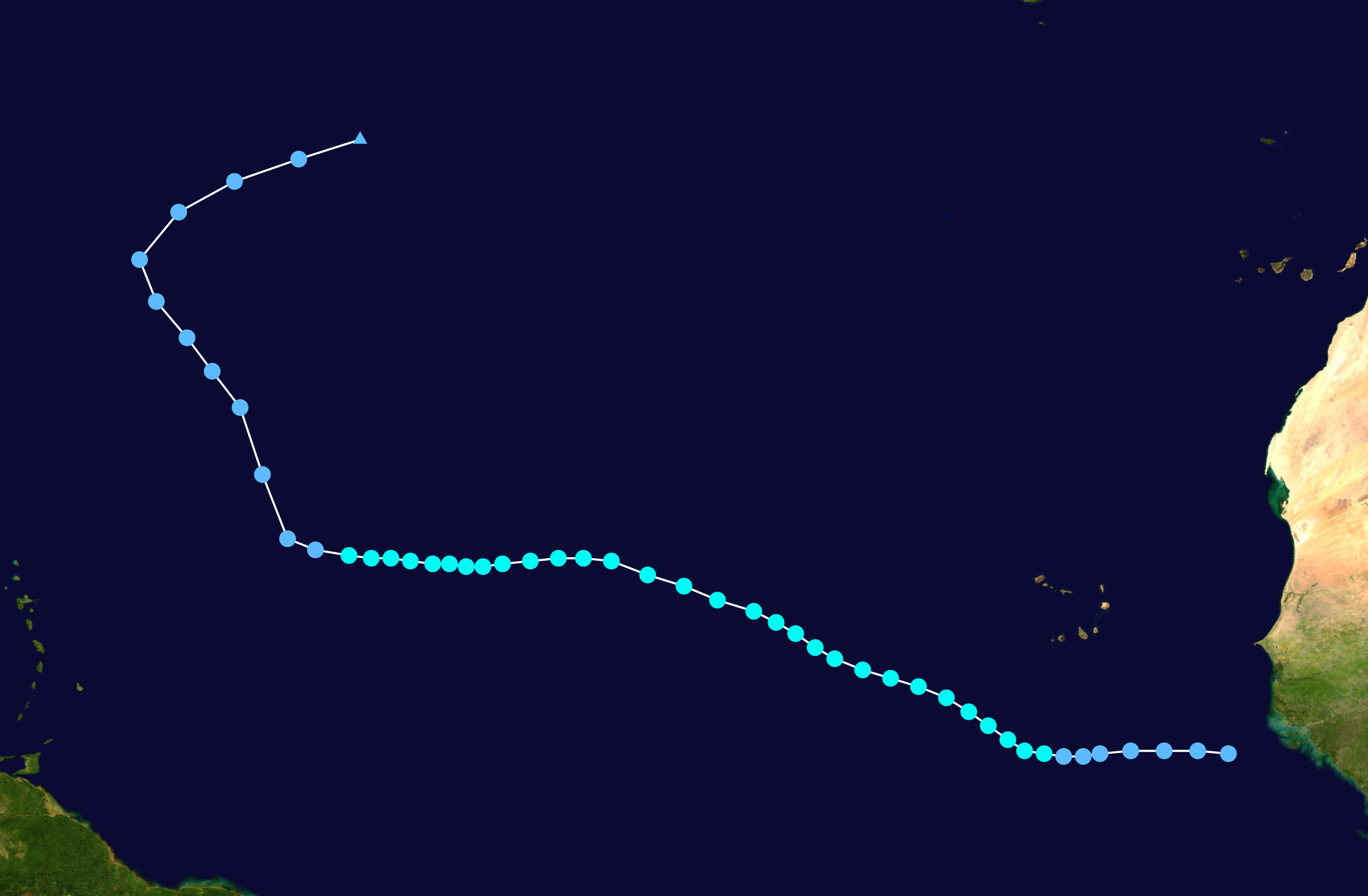 Tropical Storm Dennis (1987) track. Uses the color scheme from the Saffir-Simpson Hurricane Scale.